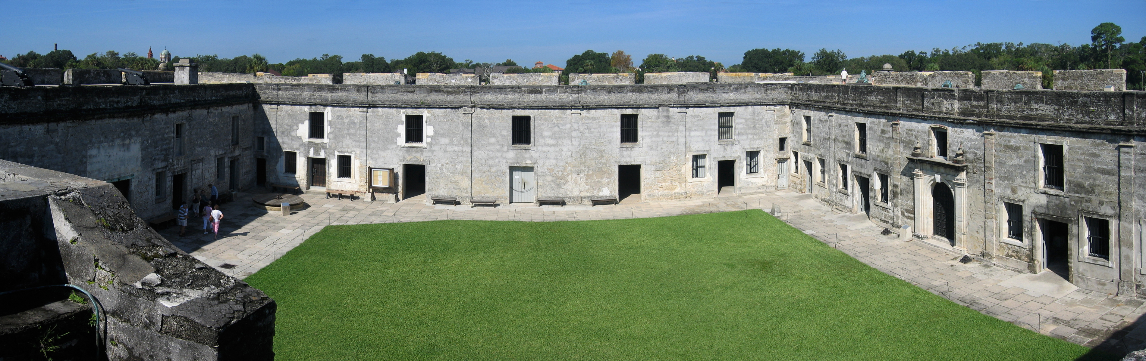 Panorama of the Castillo de San Marcos fort in St. Augustine, Florida, USA.